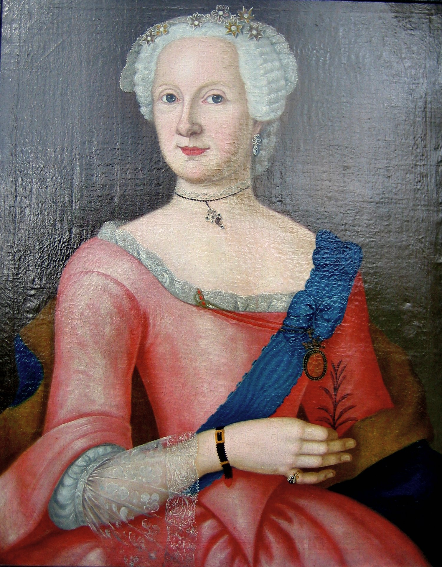 Amalie Dorothea Elisabeth von der Bottlenberg, abbess of Elsey Abbey